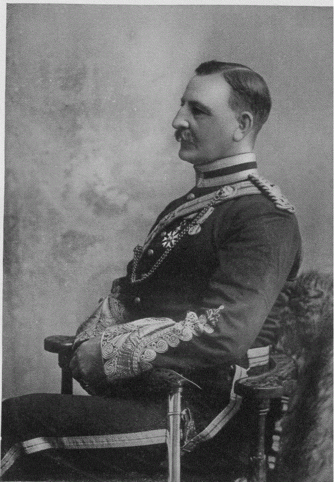 Lieut.-Colonel R.S. Frowd Walker C.M.G.